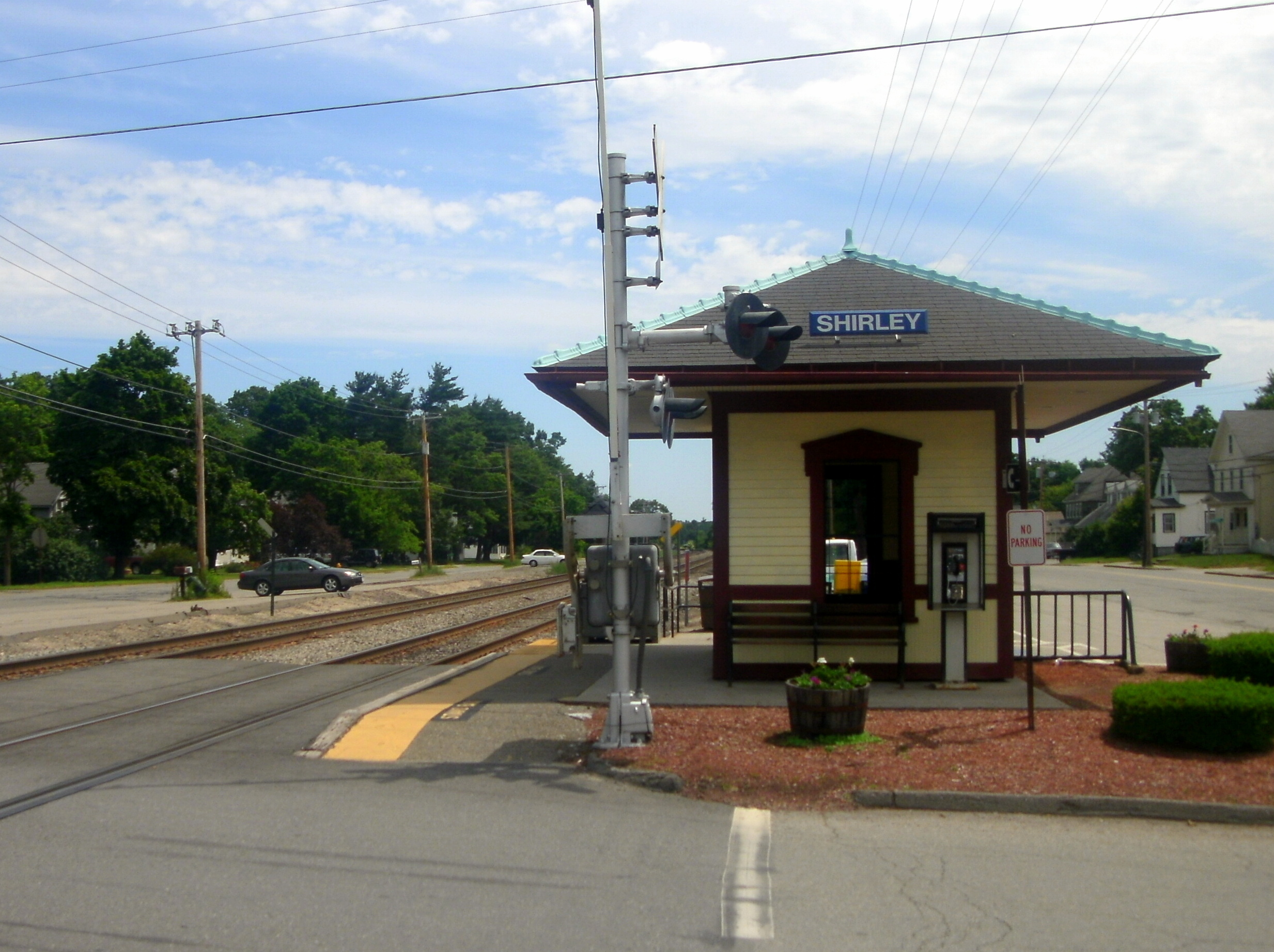 Looking inbound at the 1993-built shelter at Shirley